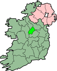 map of County Longford, Ireland 08:05, 5 February 2004 Morwen 200x249 (30678 bytes) (map)